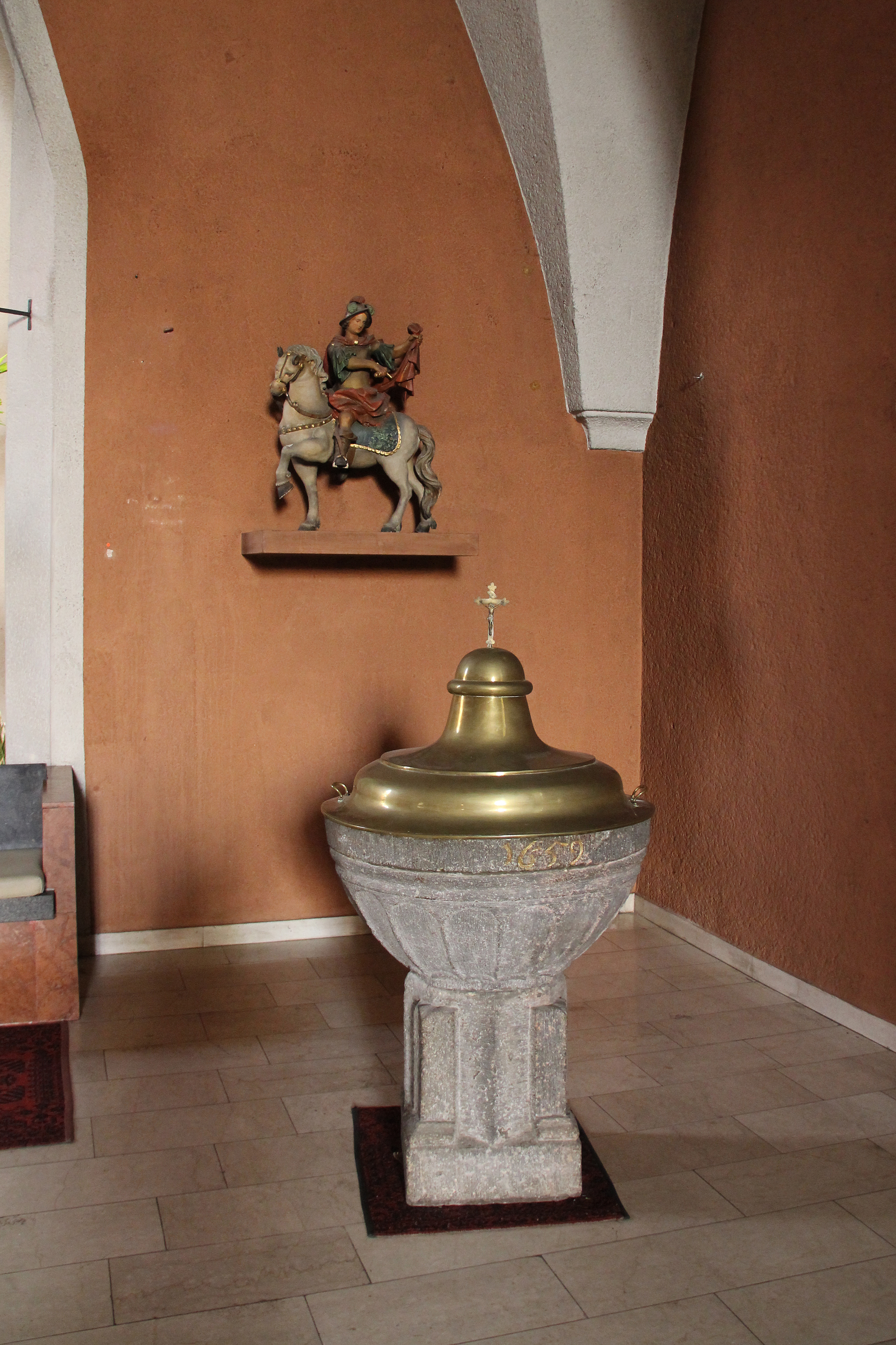 St. Martin church in Koblenz-Kesselheim